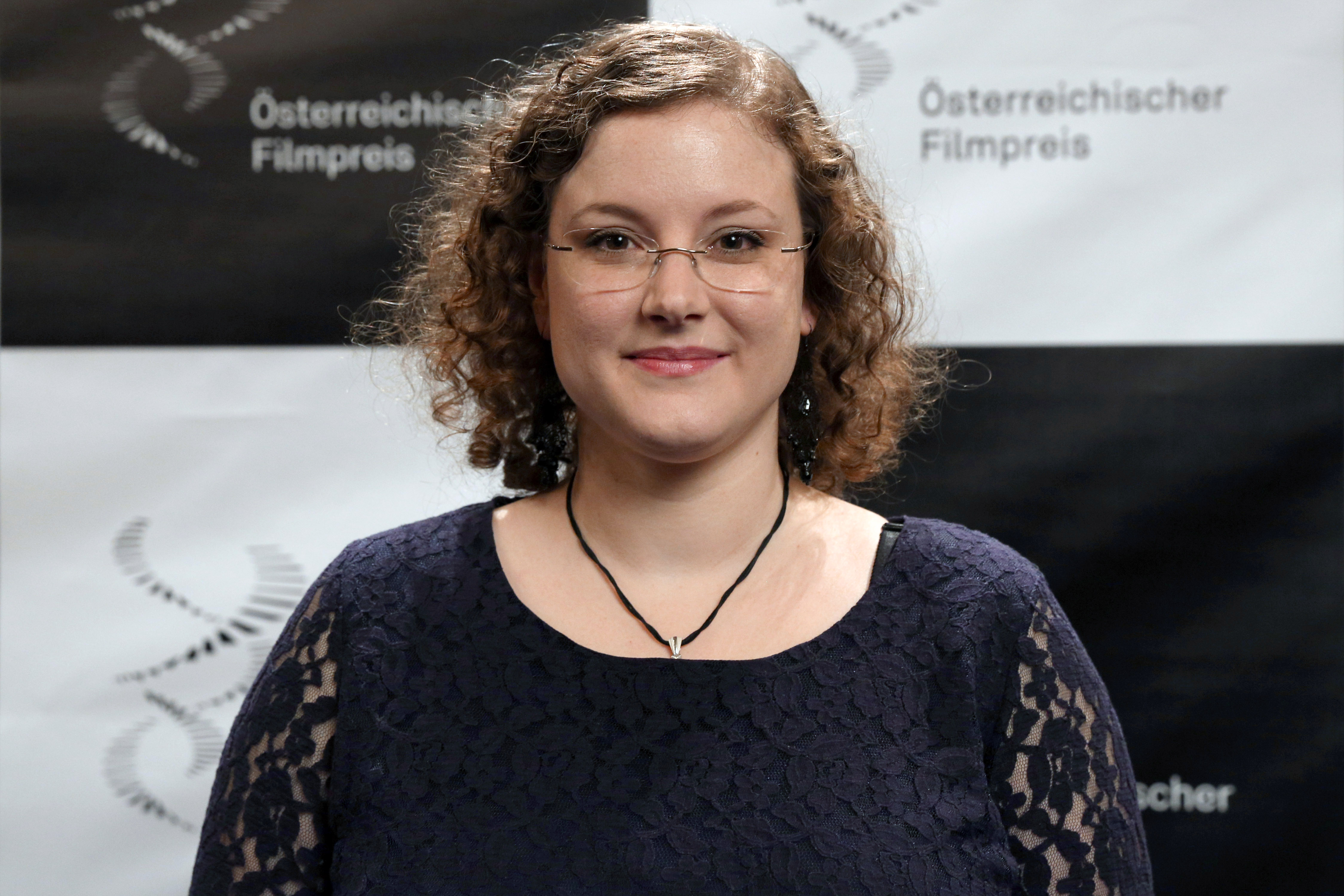 Claudia Linzer at the Austrian Film Awards 2015 at Rathaus, Vienna,Austria.